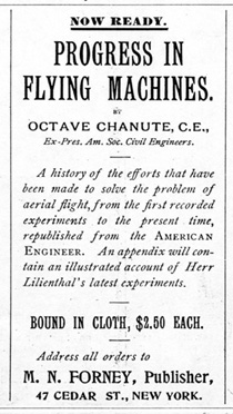 A poster advertising Octave Chanute's book Progress in Flying Machines, 1894.